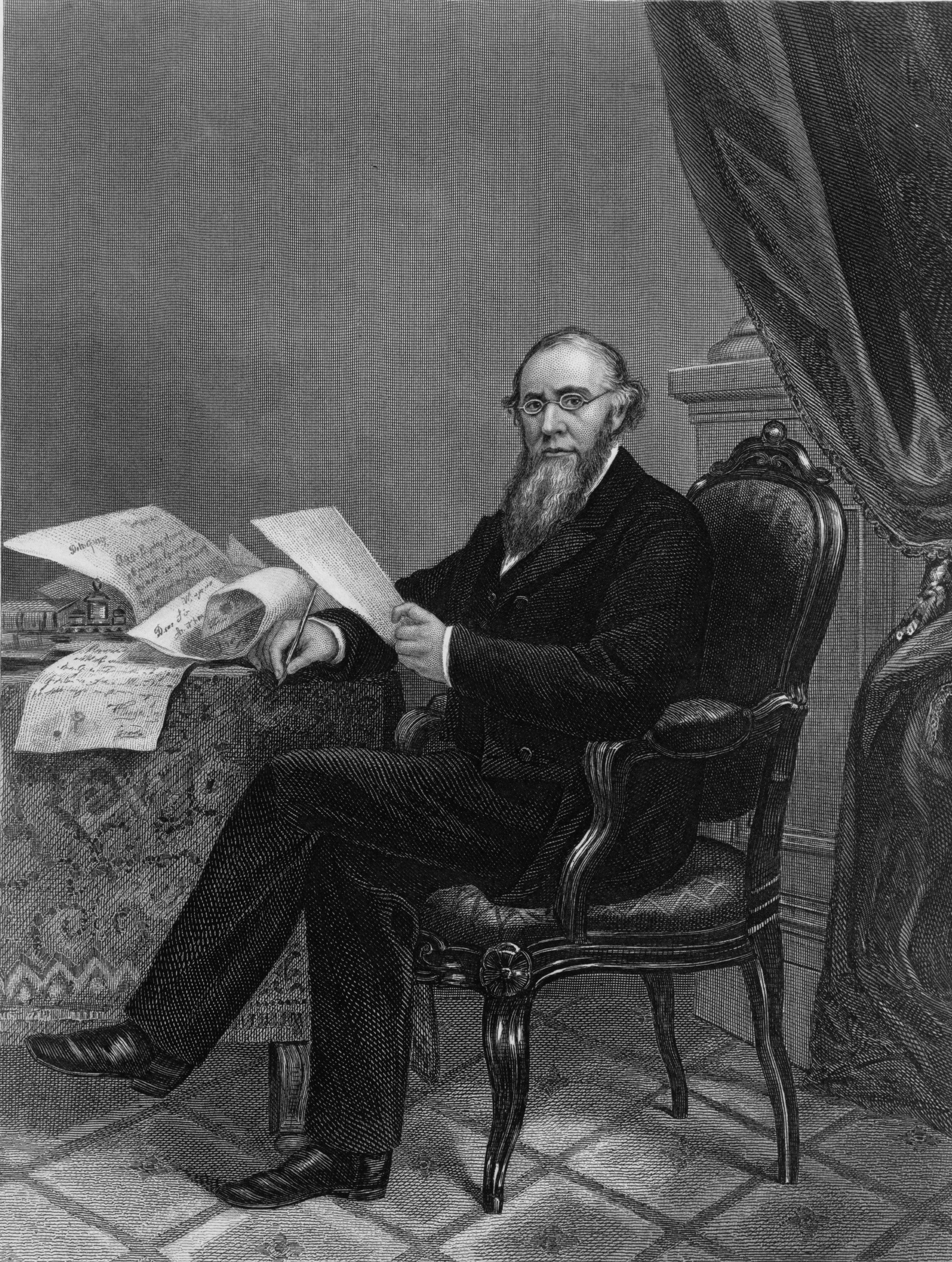 Full-length portrait of American lawyer and statesman Edwin Stanton. This image is available from the United States Library of Congress's Prints and Photographs division under the digital ID cph.3c01375. This tag does not indicate the copyright status of the attached work. A normal copyright tag is still required. See Commons:Licensing for more information.